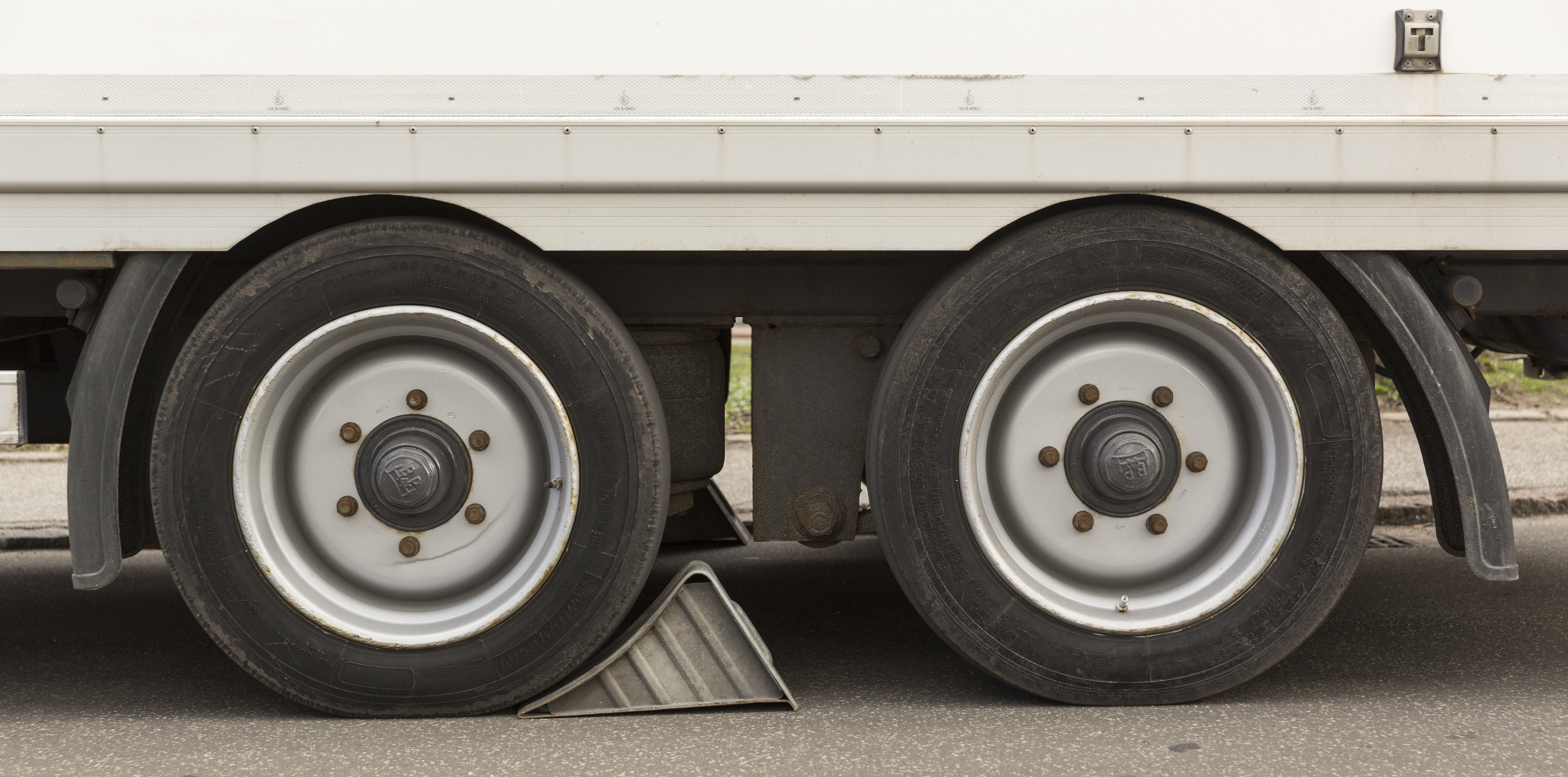 Stop block